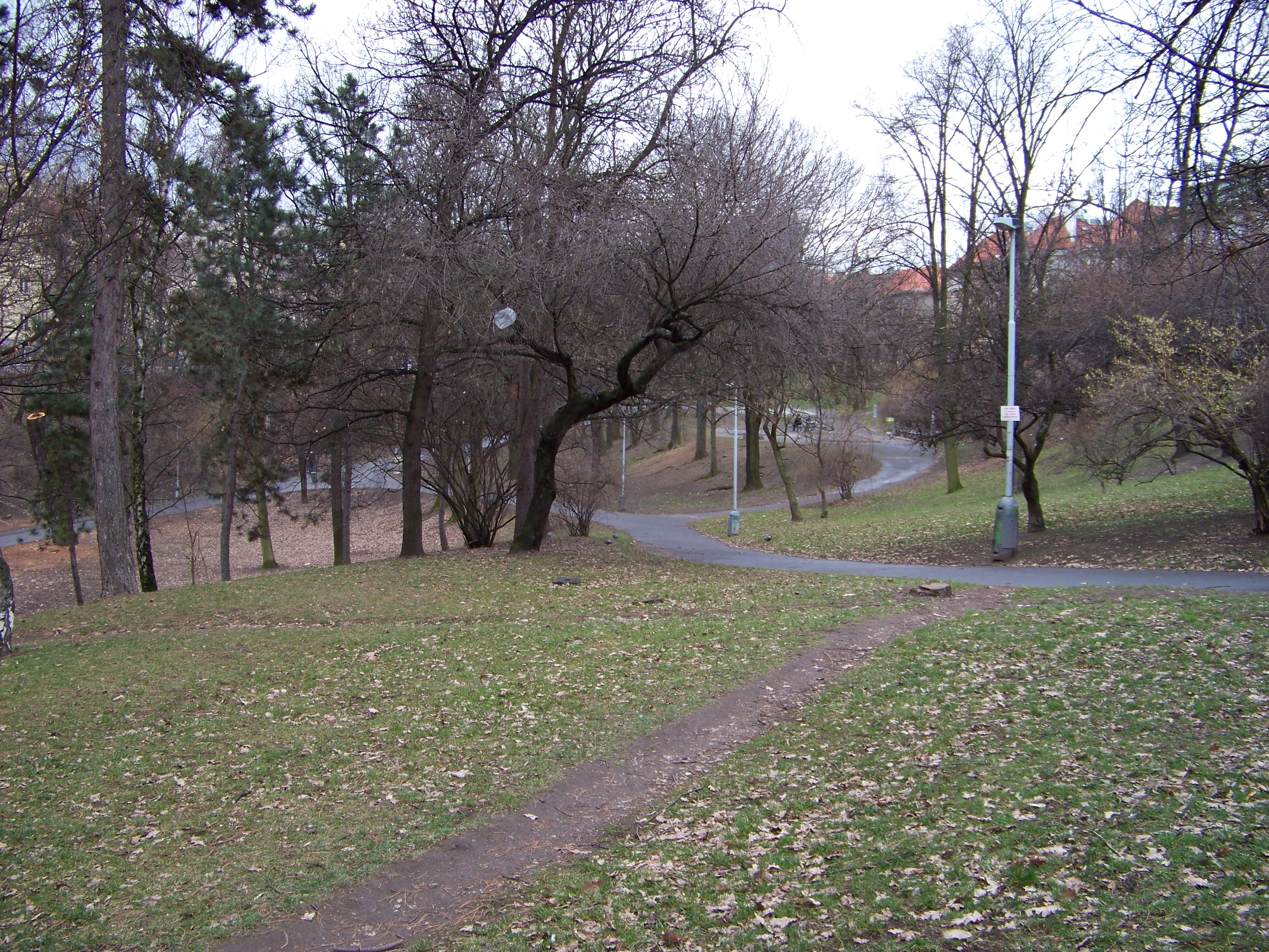 Prague-Nusle, the Czech Republic. Jezerka park.